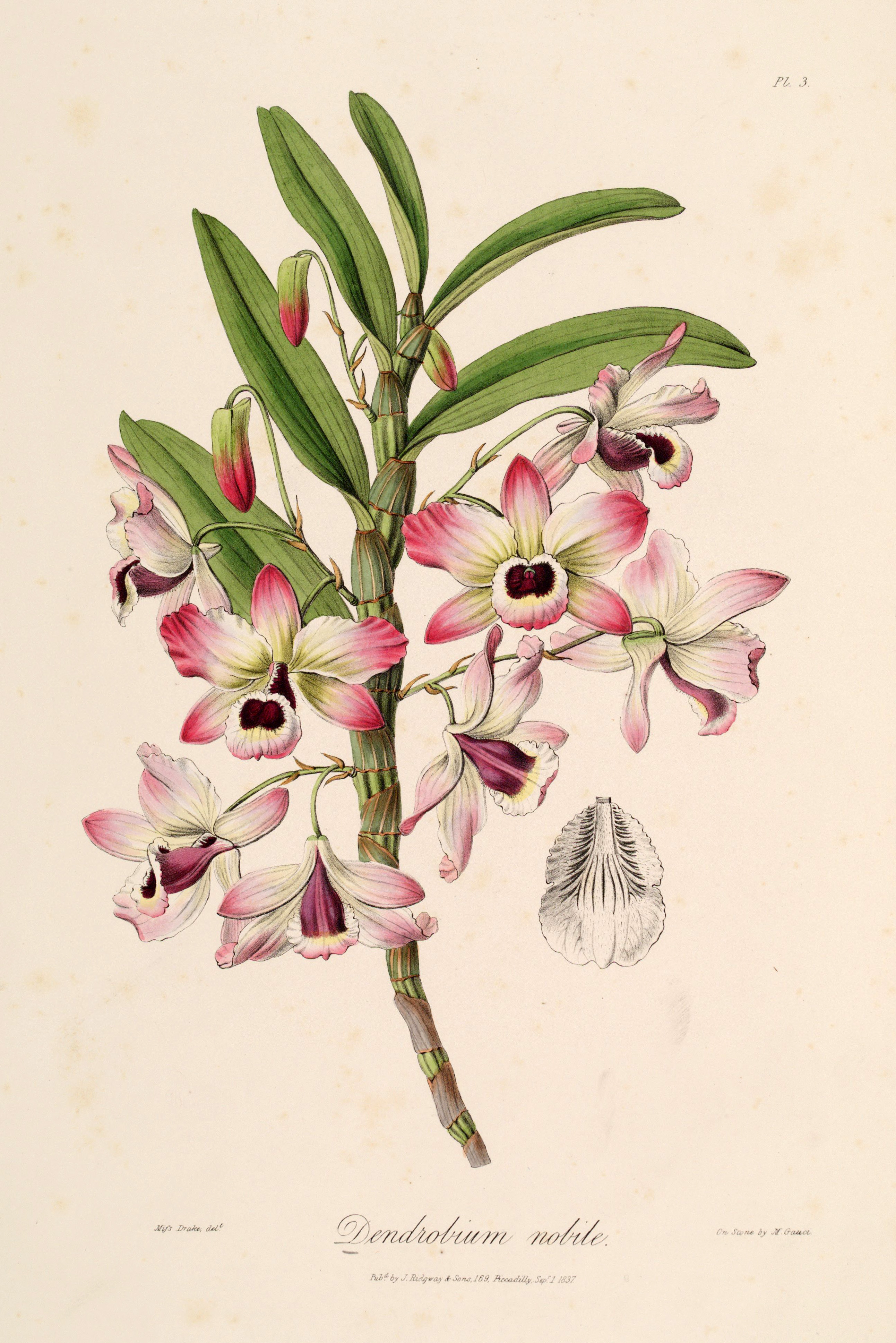 Illustration of Dendrobium nobile